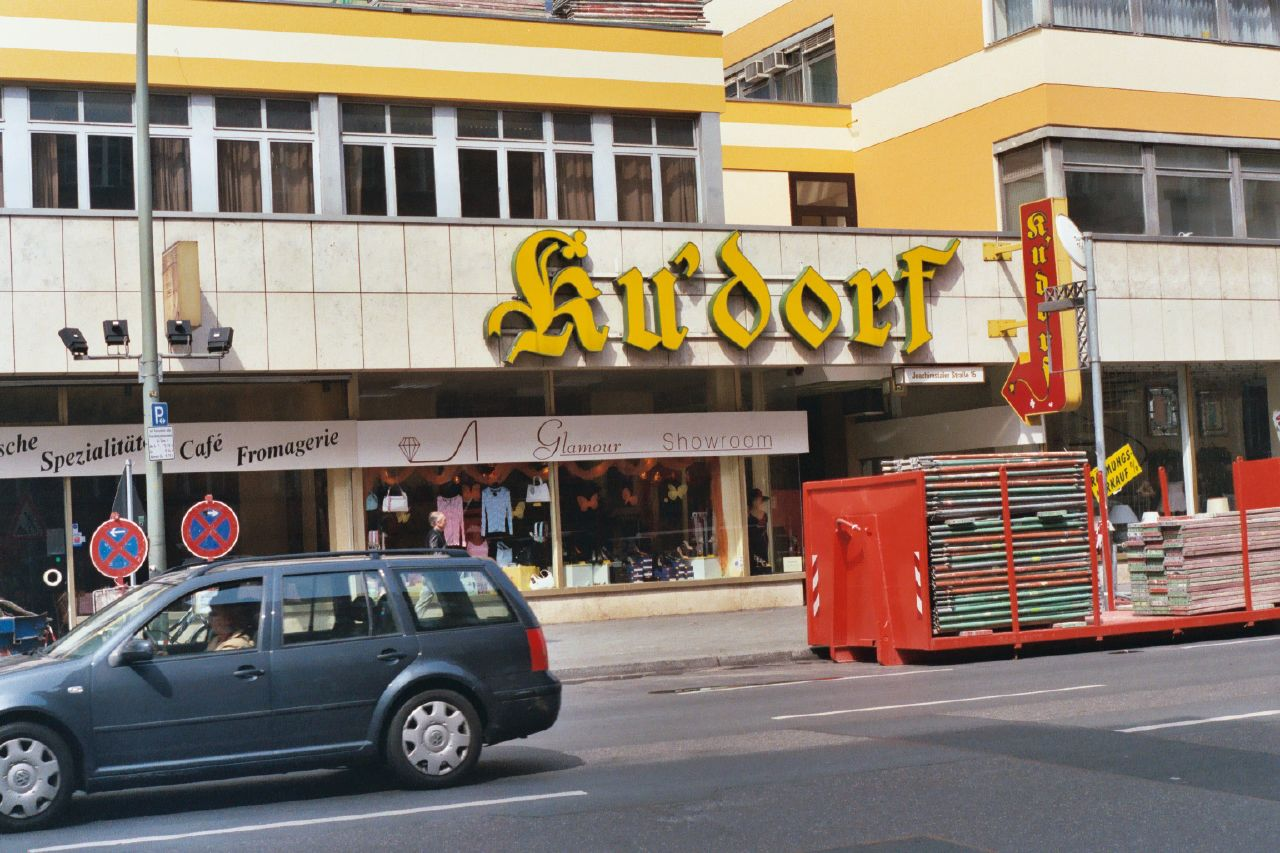 Entrance of the Ku’dorf (later Q-Dorf and Q-Berlin) nightclub in Berlin. In its day it was the largest nightclub (Kneipen) area of Berlin.